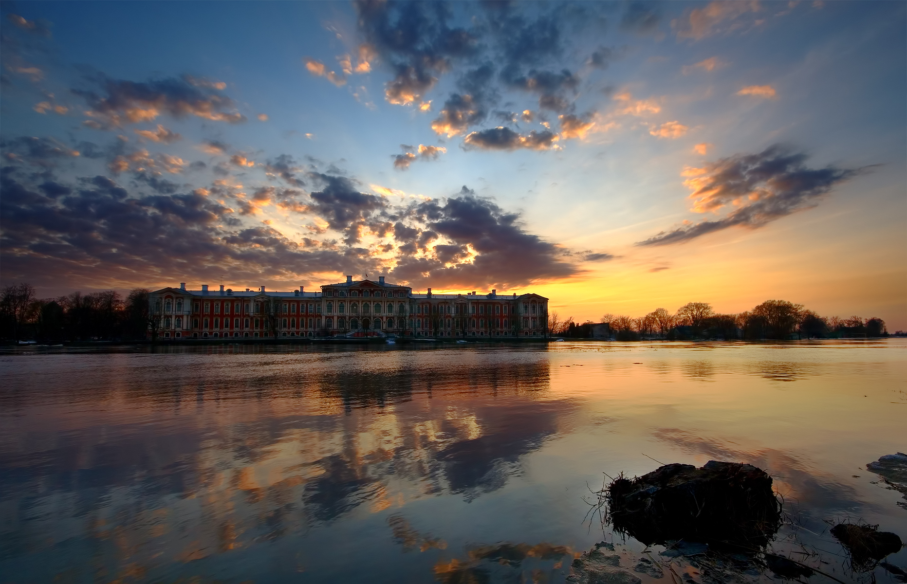 Lielupe river and Jelgava palace